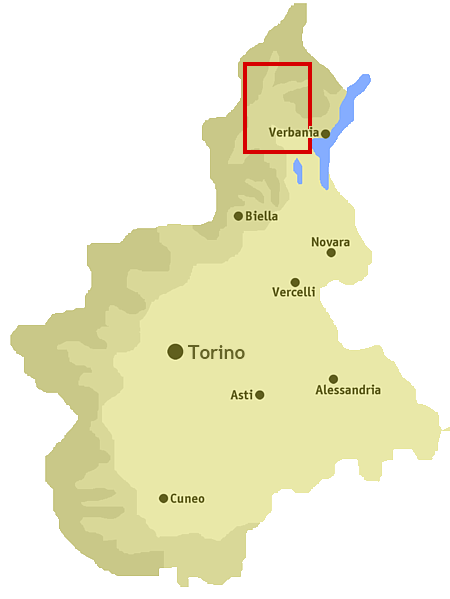 Position of the valley Val d'Ossola